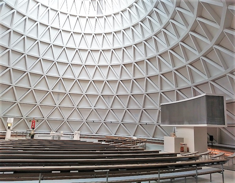 New roman catholic church St. Josef in Holzkirchen (Upper Bavaria)